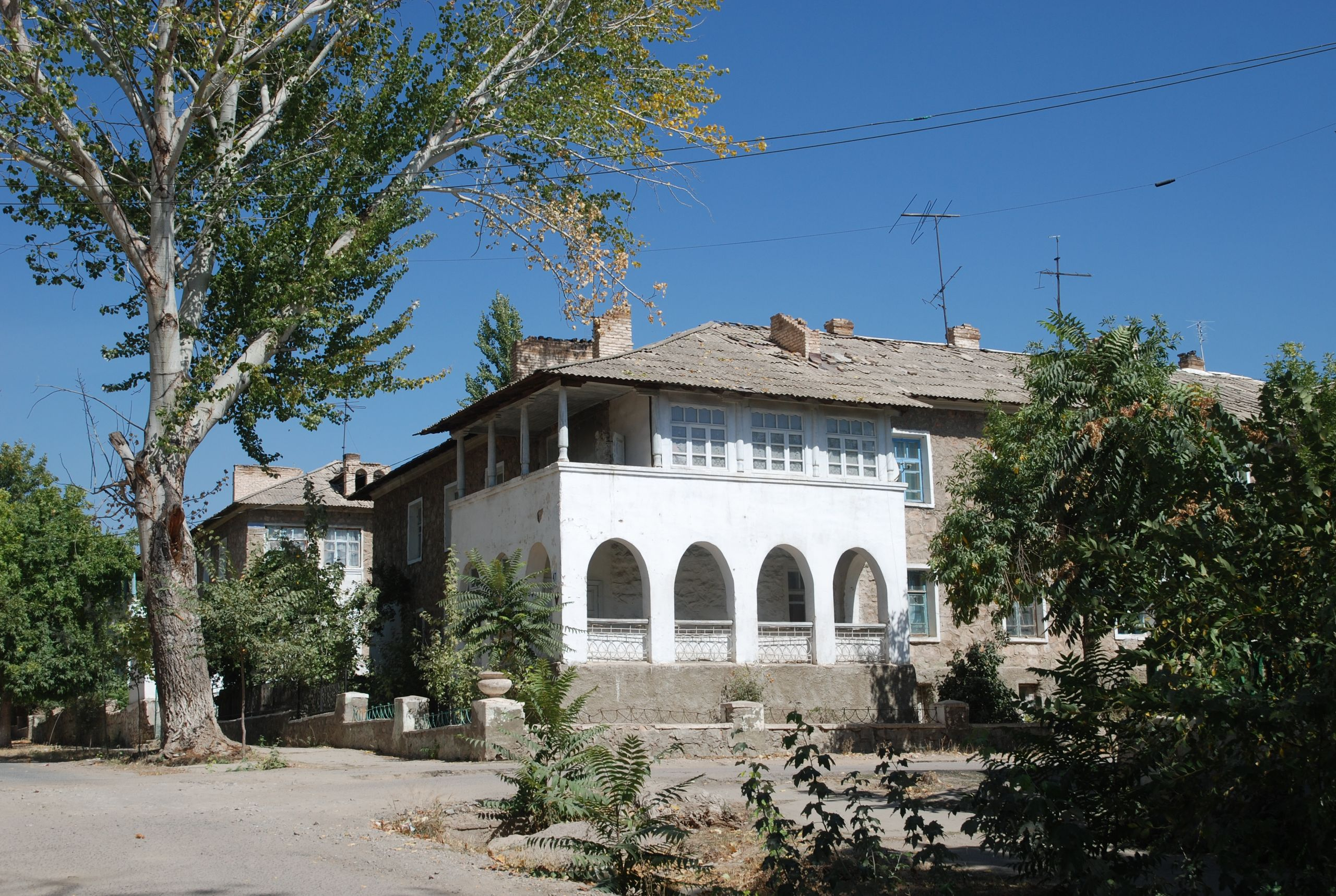 Taboshar, main road, Sughd province, Tajikistan